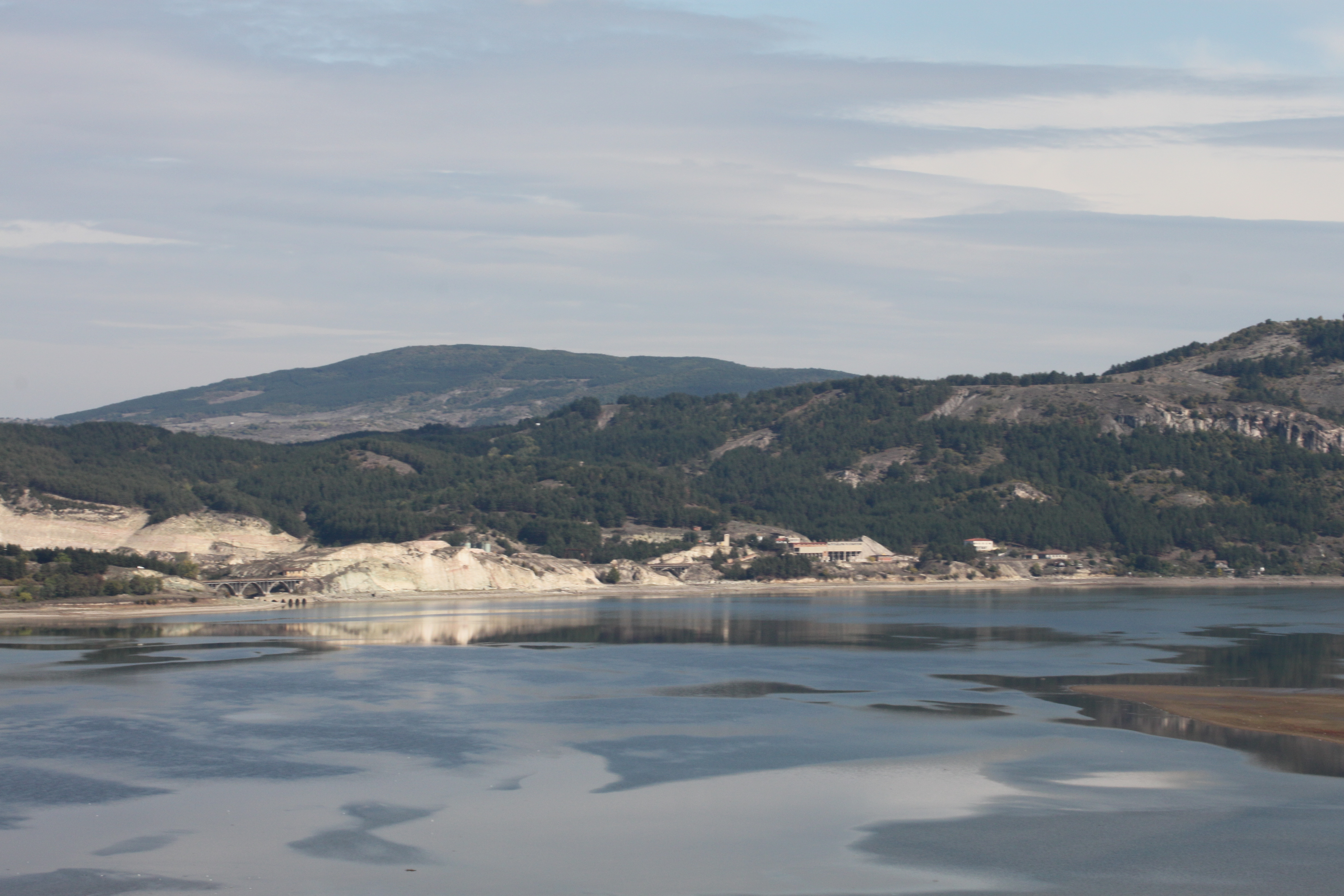 Kardzhali , Bulgaria